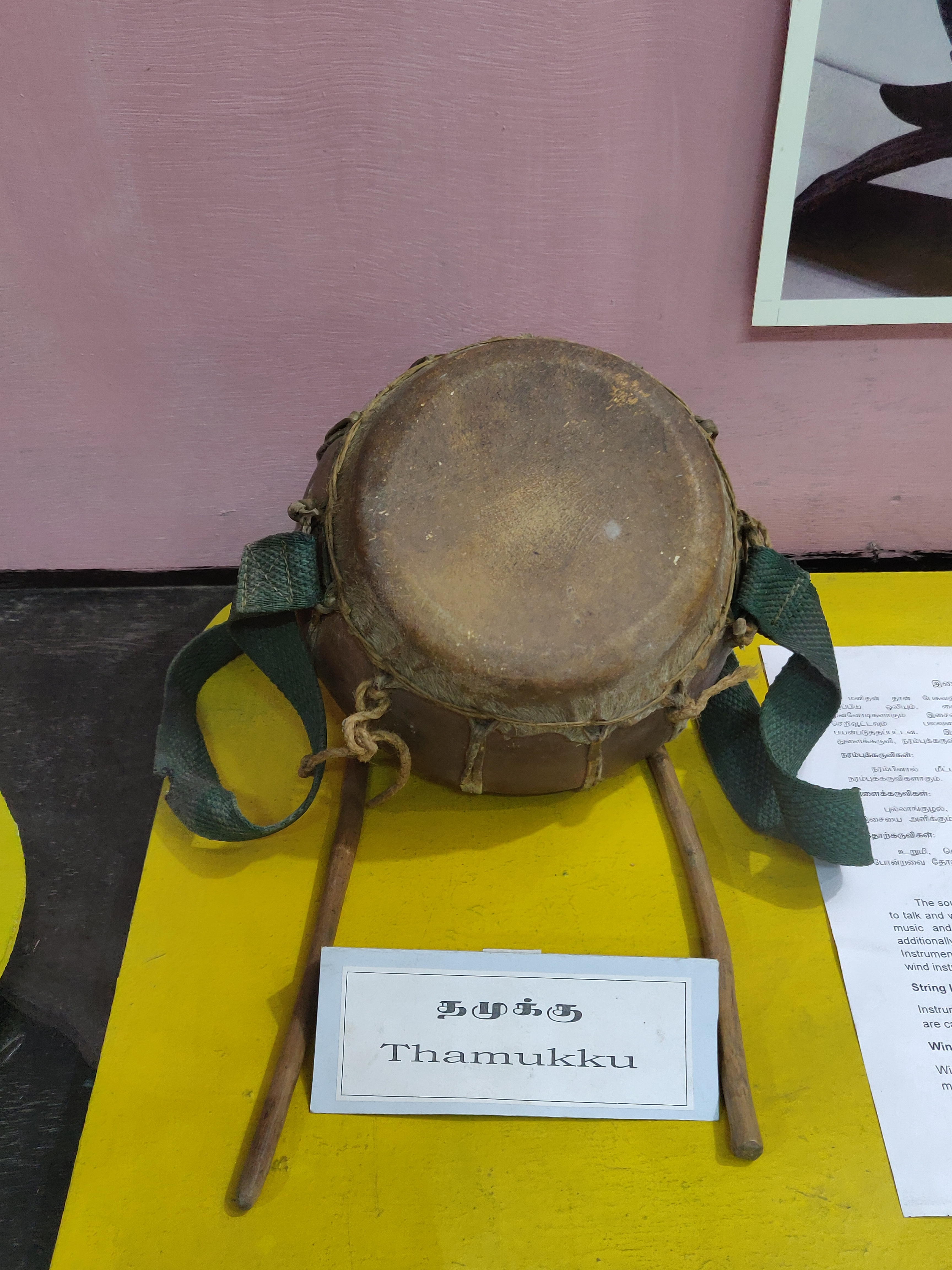 Exhibits in Government Museum, Coimbatore. Thamukku